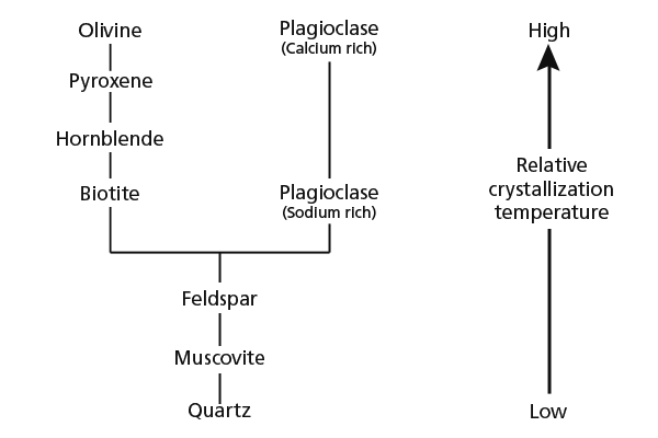 Diagram illustrating Bowen's reaction series. Created to replace the existing ASCII diagram found in the article.